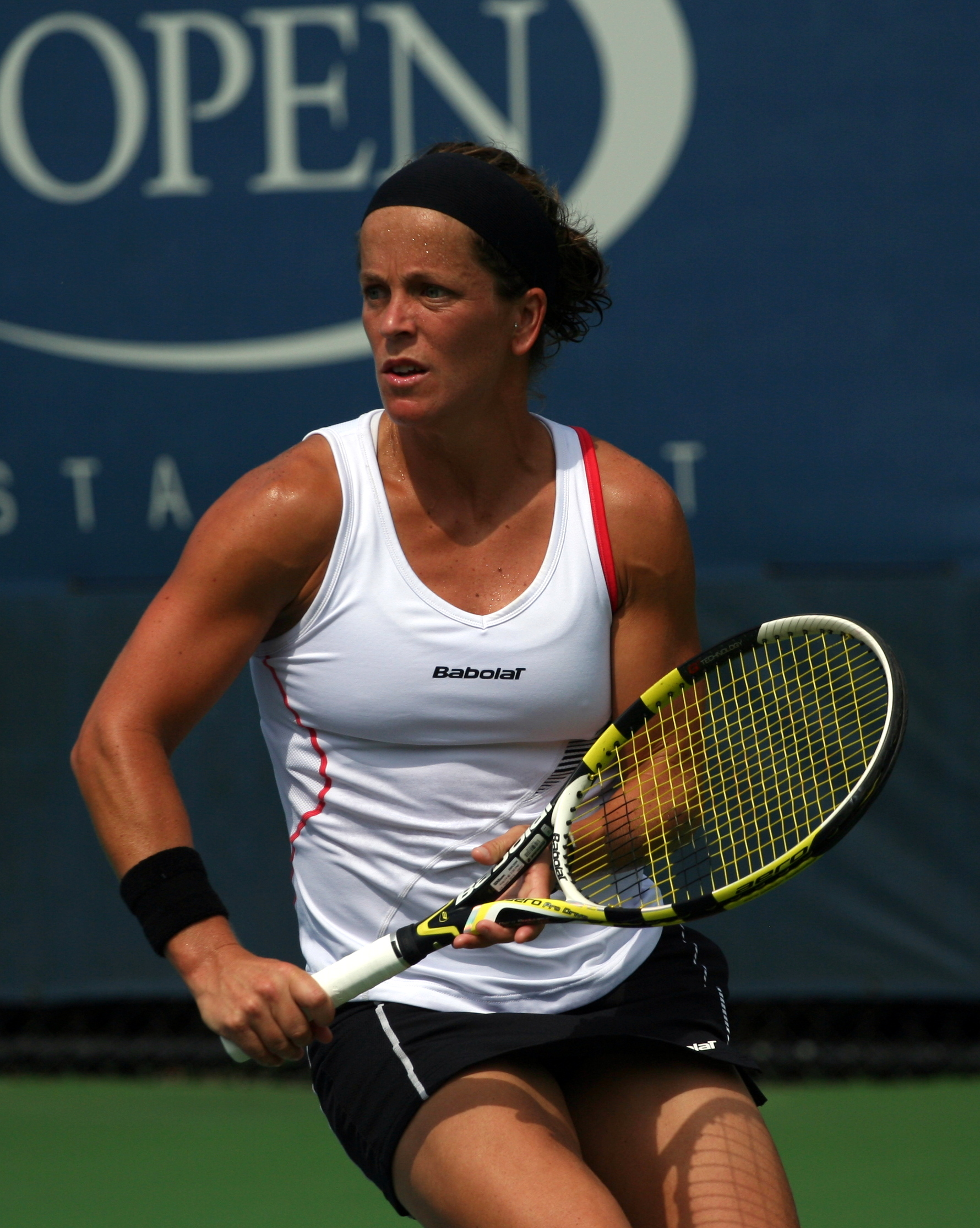 U.S. Open Thursday, Aug. 29, 2013